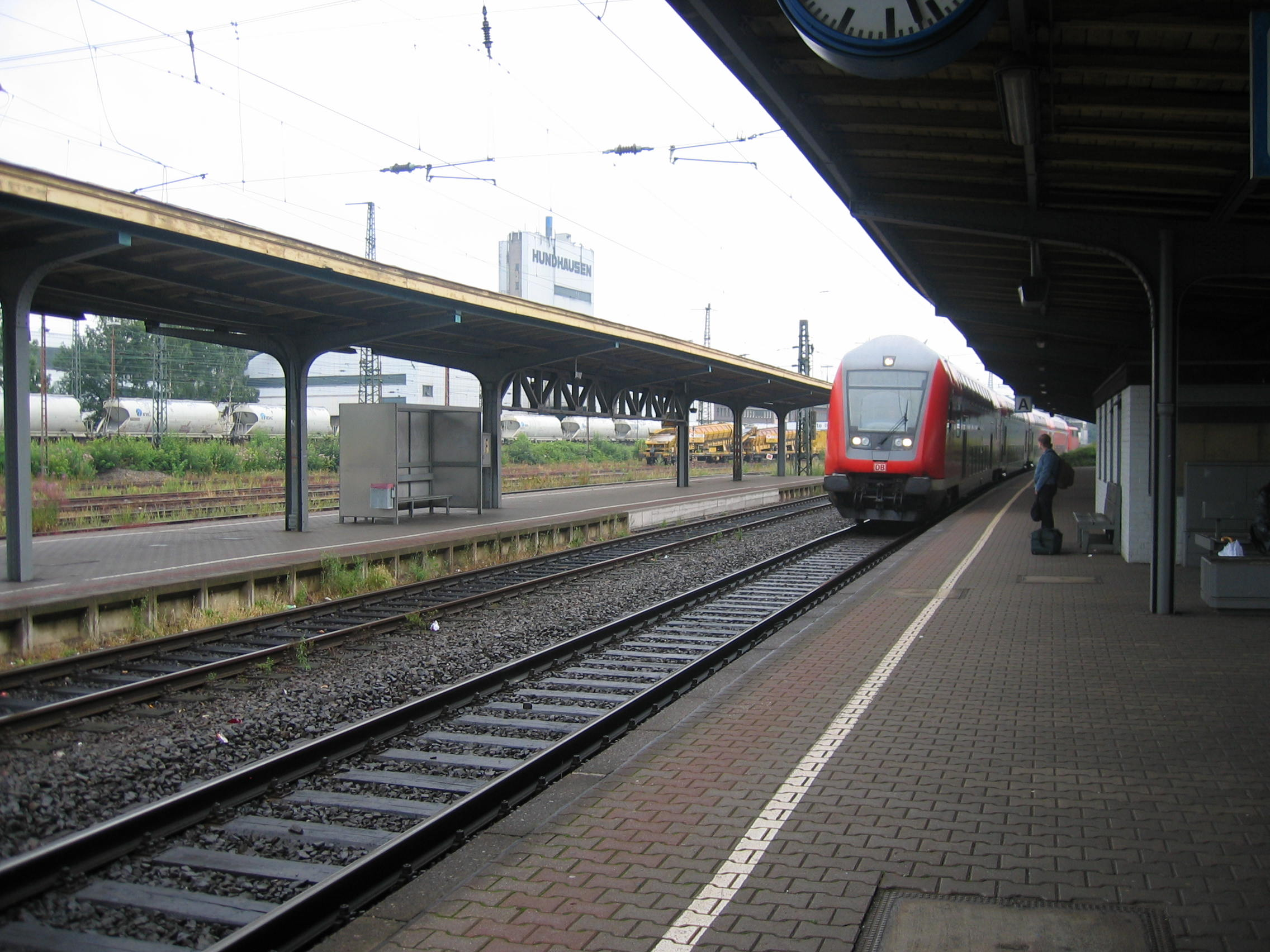 Train Station of Schwerte (Ruhr), Kreis Unna, Northrine-Westphalia, Germany, Taken in Summer 2005